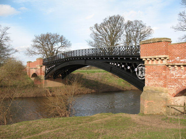 Myton Bridge across the River Swale, Myton-on-Swale, North Yorkshire, built in 1868 and fully restored in 2002